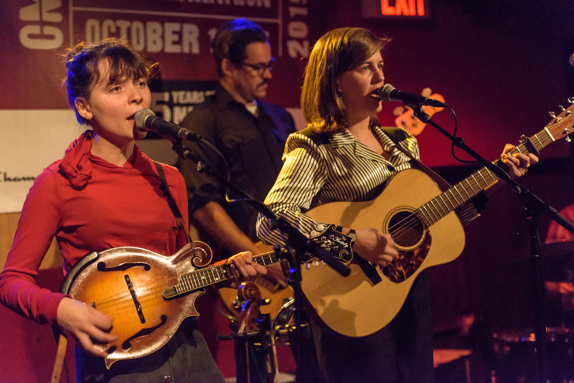 Pepita Emmerichs (left) and Olivia Hally perform as Oh Pep! at the 2015 CMJ Music Marathon at Rockwood Music Hall, New York, NY. October 13, 2015. Photo by Steven Pisano.